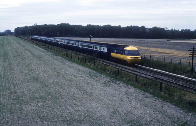 Diverted express seen from the B1368 bridge, near to Hauxton, Cambridgeshire, Great Britain. This picture was taken before the railway from Royston to Cambridge was electrified. This is a diverted Kings Cross to Newcastle service heading towards Cambridge, Ely and on to Peterborough to regain the East Coast main line. Such diversions on Sundays years ago were common place.Meanwhile alongside the railway the corn has been cut and only short stubble remains in the fields.